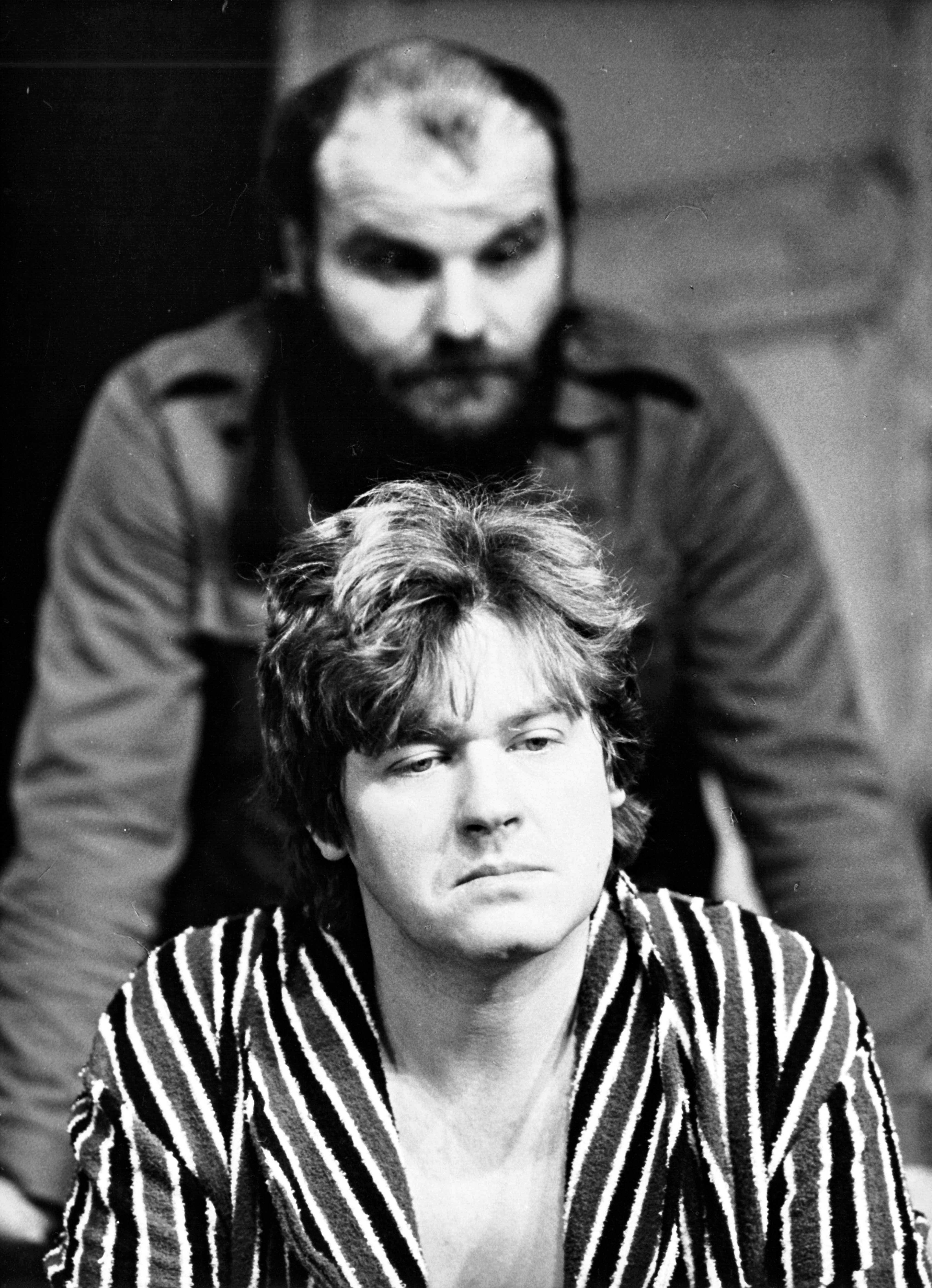 János Bácskai actor (at the front) and Lajos Kovács actor.